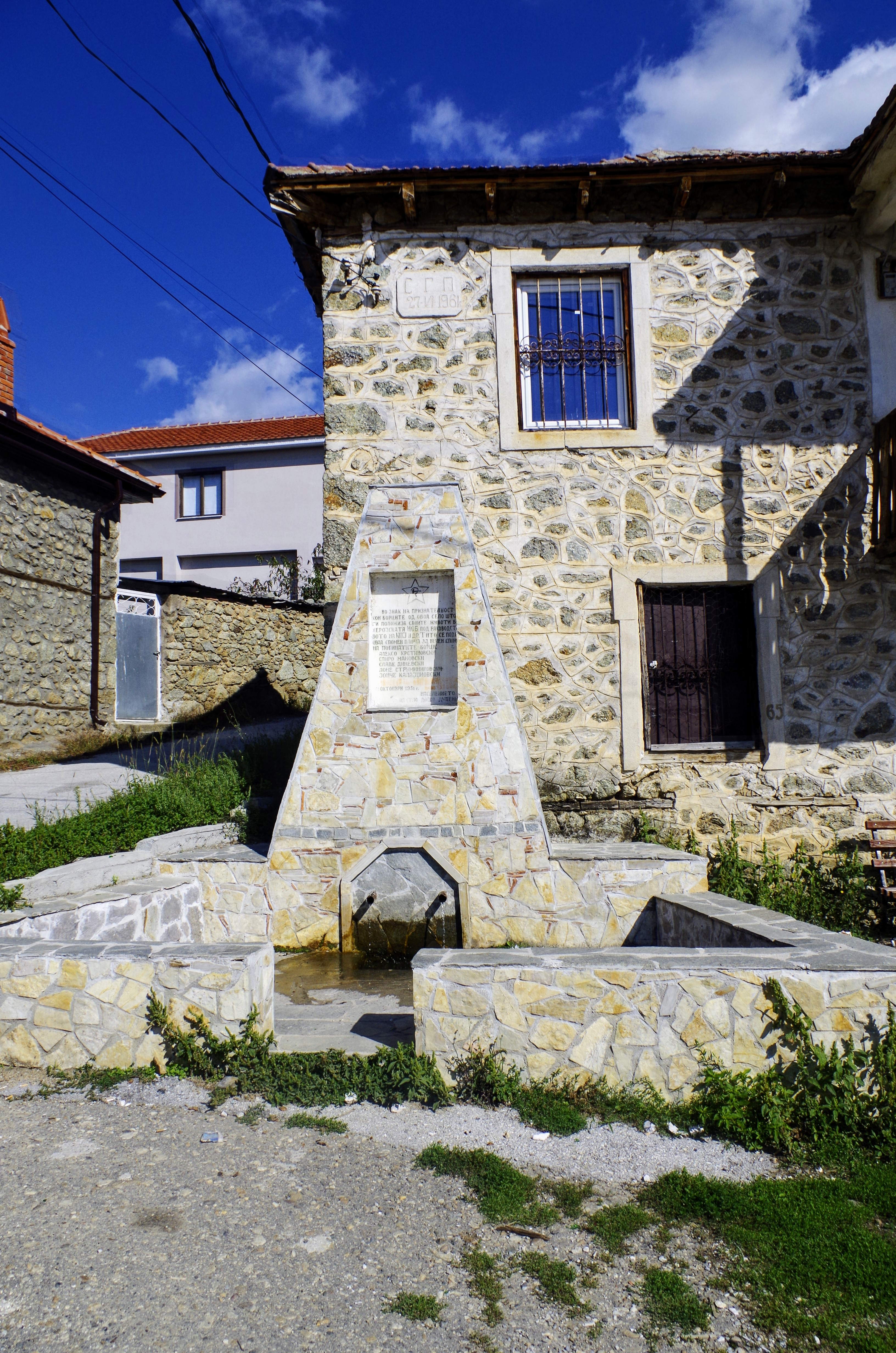 View of the monument in the village Dolno Dupeni